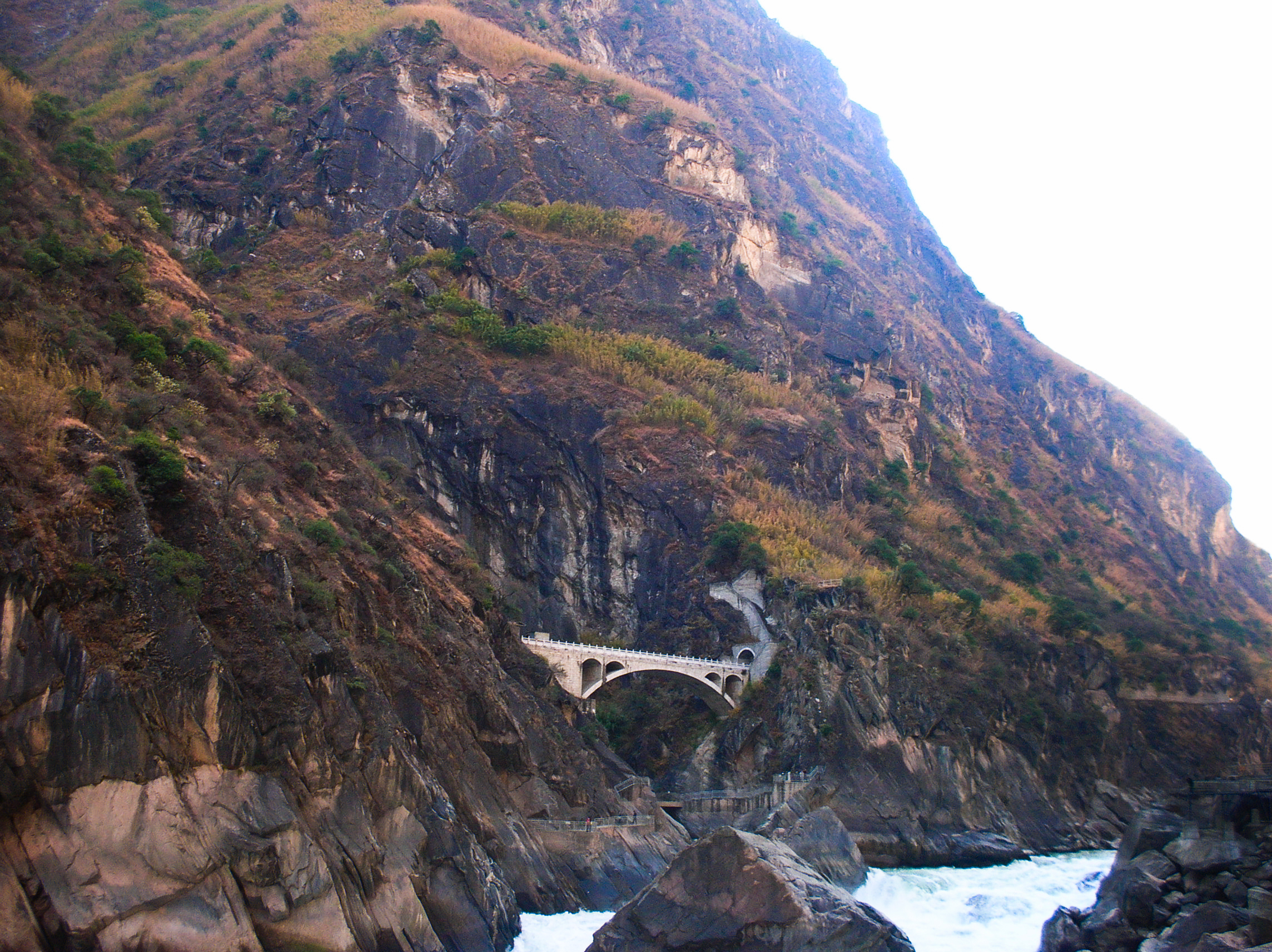 A bridge opposite Tiger Leaping Gorge. Taken by TDX.